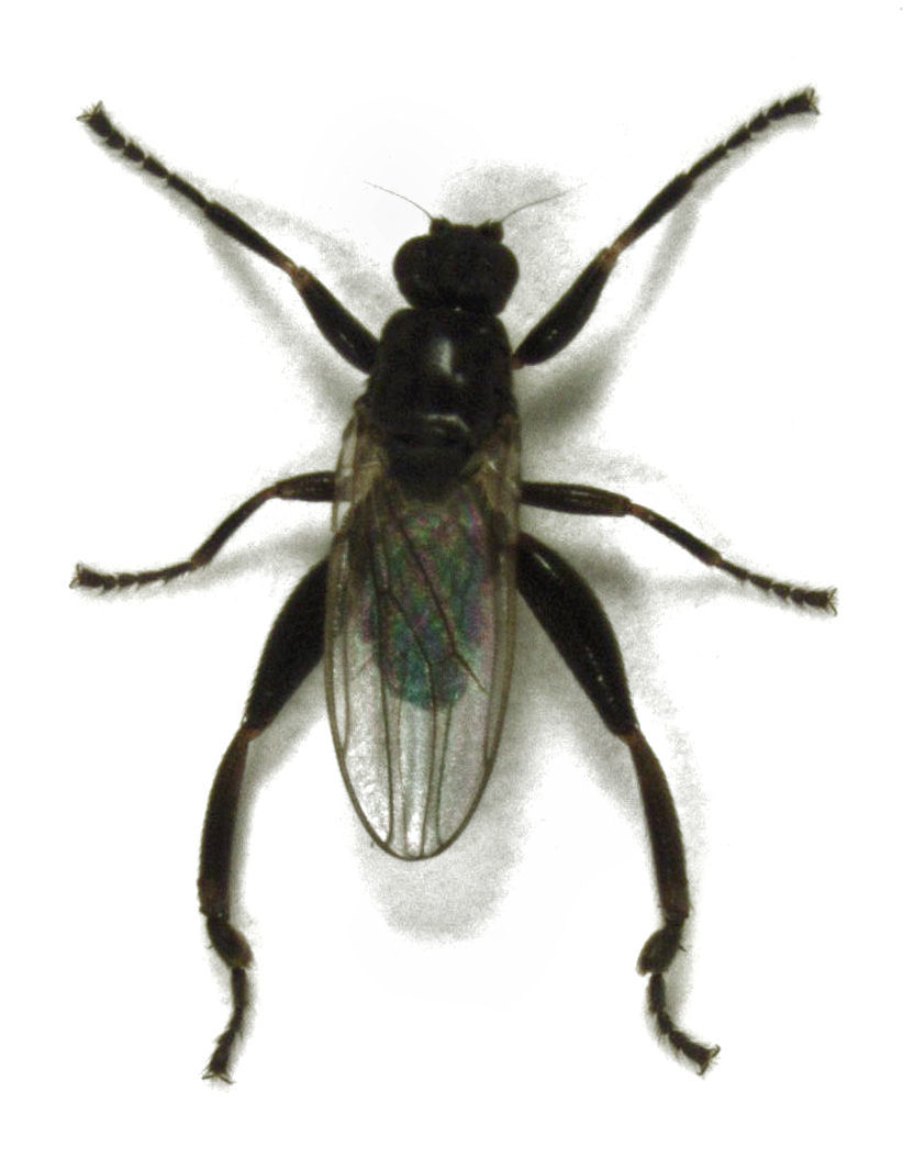 Sphaerocera curvipes Latreille, 1805. Adult male.